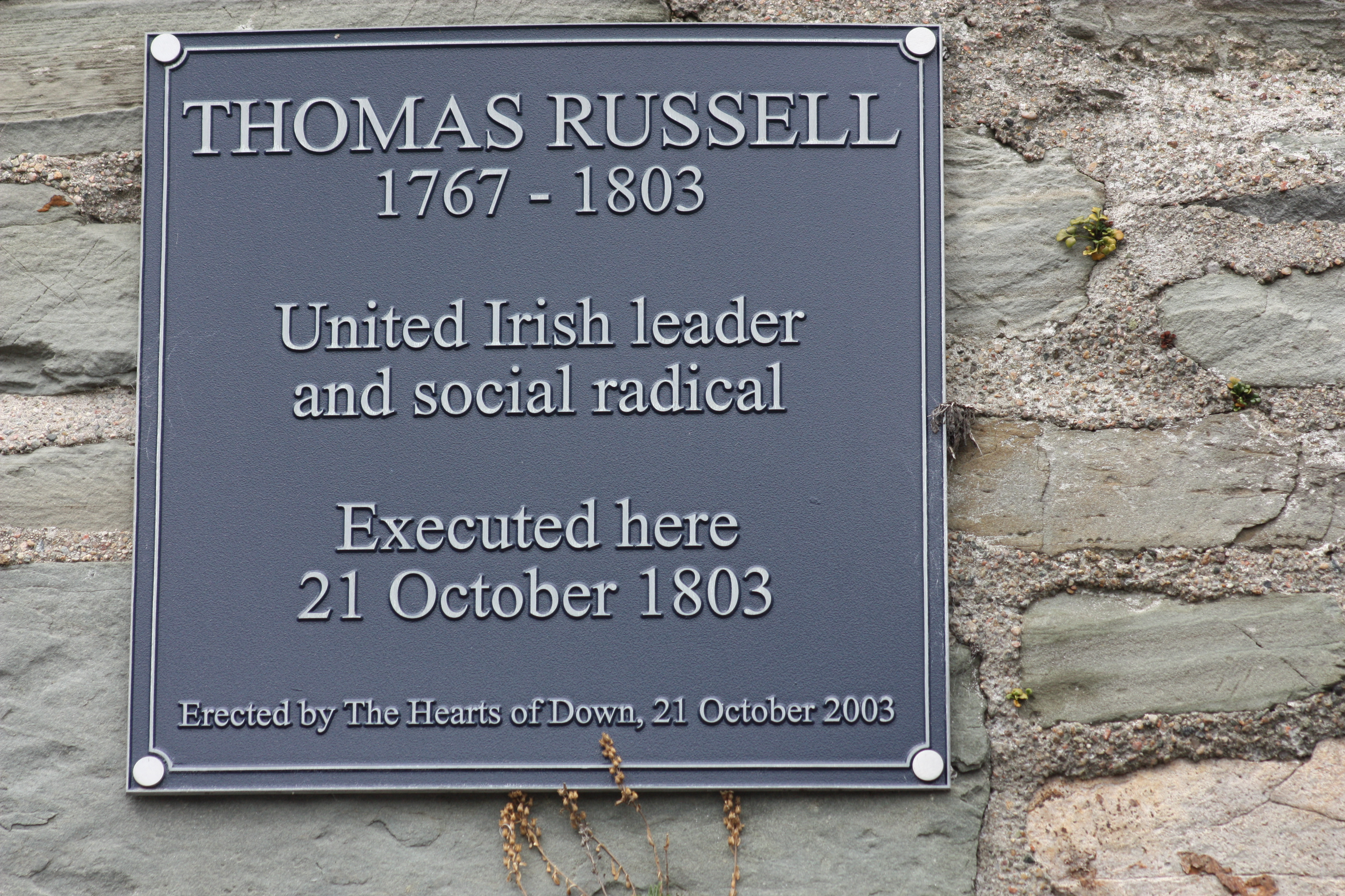 Memorial plaque to Thomas Russell, Down County Museum, The Mall, English Street, Downpatrick, Northern Ireland, August 2009